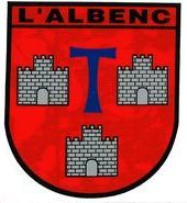 The Arms of the commune of l'Albenc in France. Used in L'Albenc